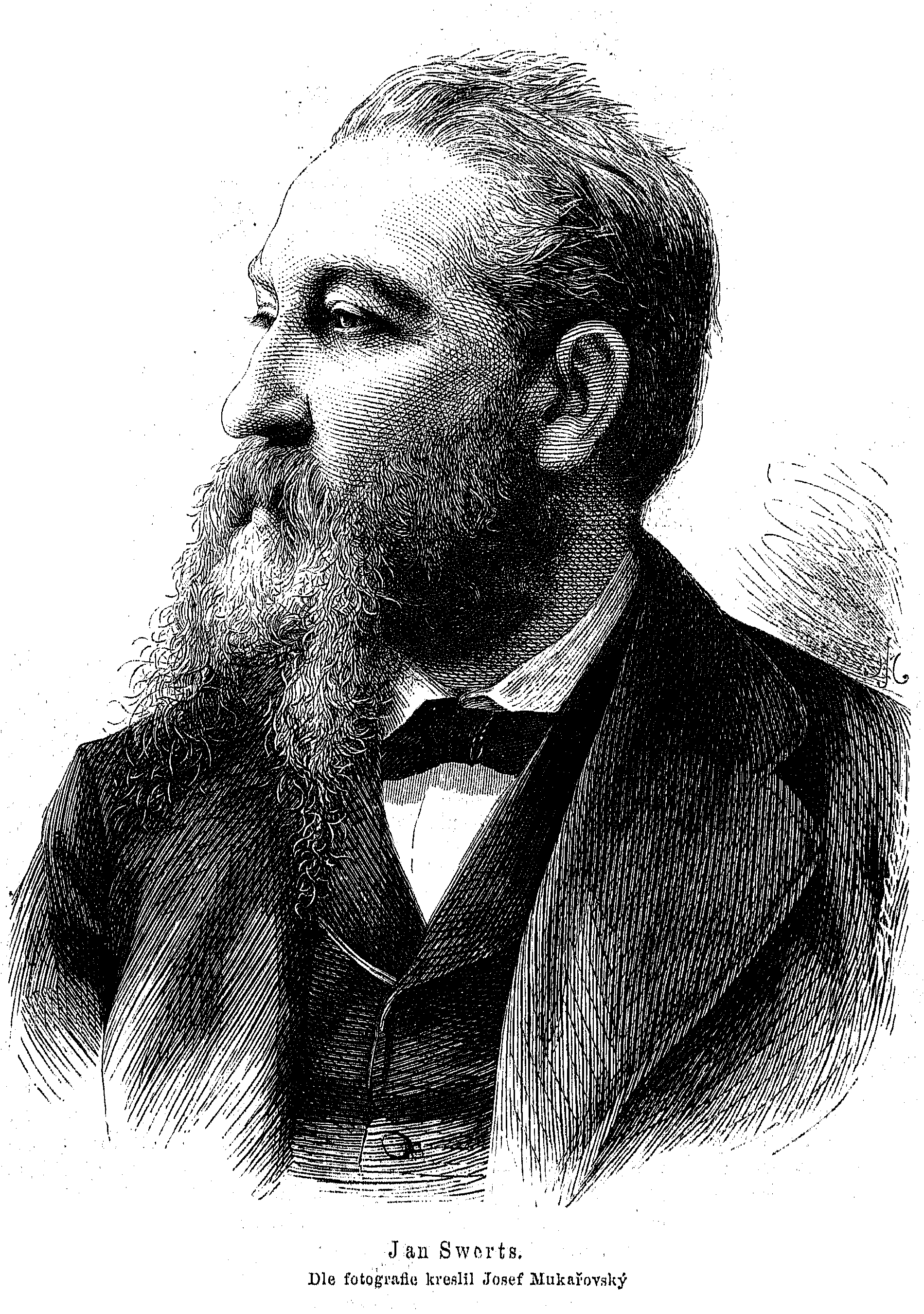 Portrait of Jan Swerts (1820 - 1879), Flemish painter and director of Art Academy in Prague